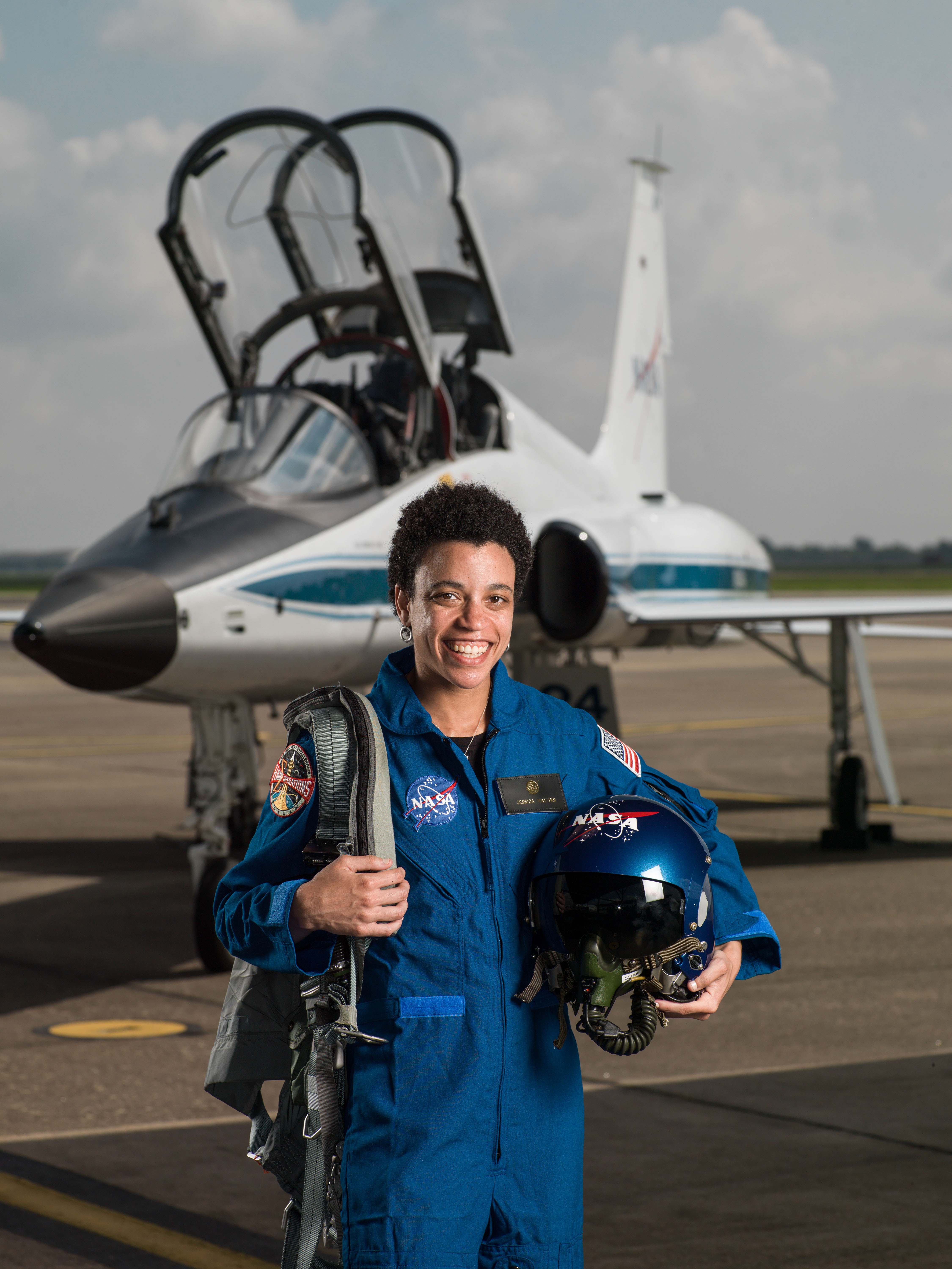 2017 NASA Astronaut Candidate - Jessica Watkins. Photo Date: June 6, 2017. Location: Ellington Field - Hangar 276, Tarmac. Photographer: Robert Markowitz